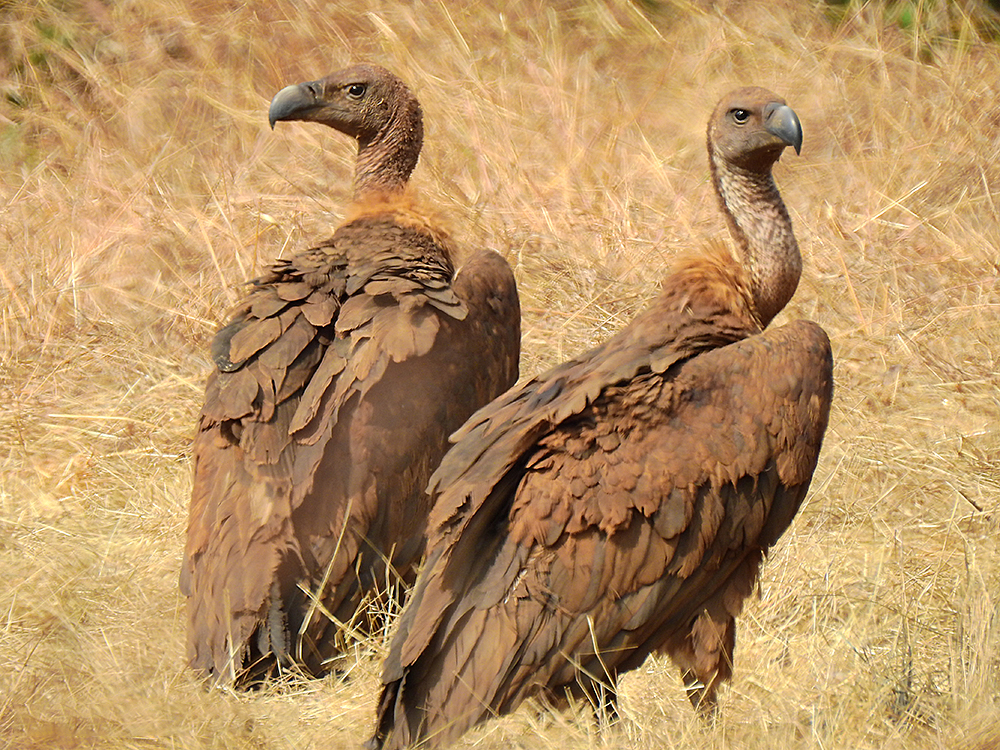 Photograph by Shantanu Kuveskar Location : Mangaon, Raigad, Maharashtra, India